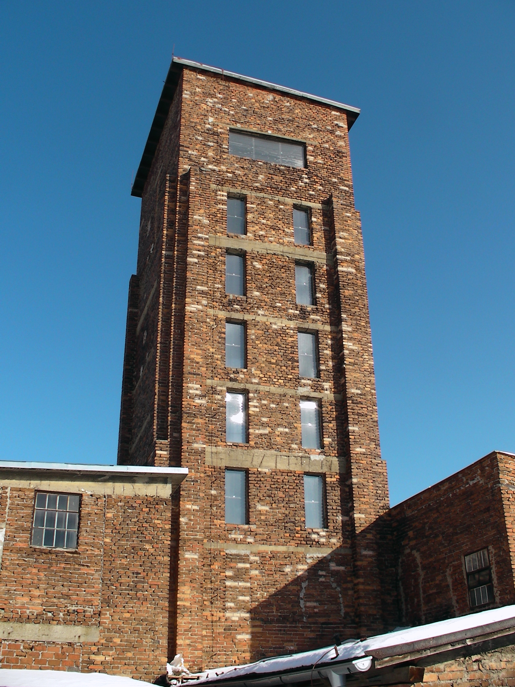 Věž smrti v Dolním Žďáru.